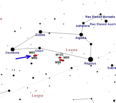 Map of M66